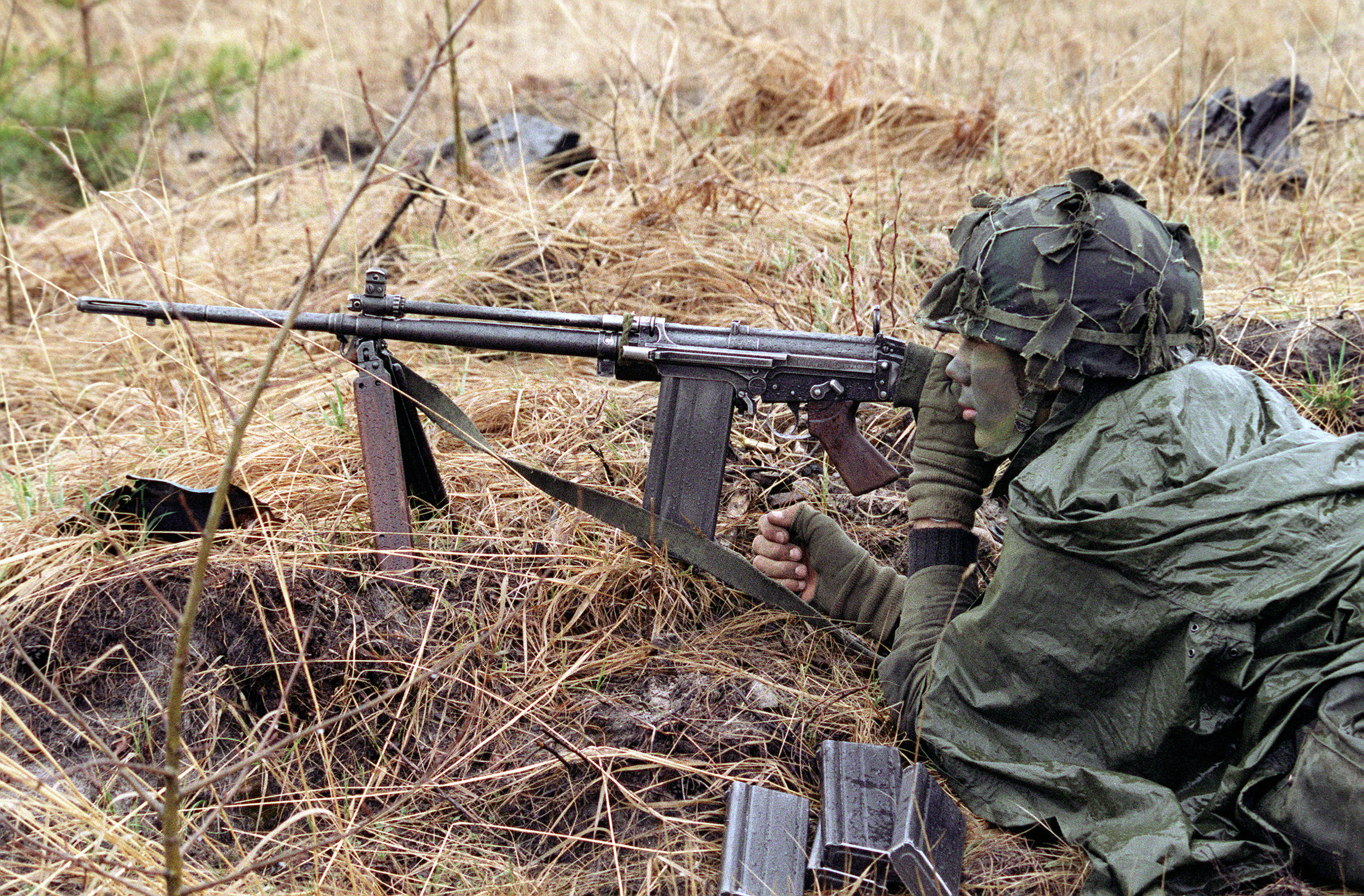 Description Canadian soldier with C2 light machine gun. C2 are canadian version of FN FALO, heavy barreled version of FN FAL Date 20 May 1983 Source's ID DASC8402213 Original caption A Canadian soldier aims his 7.62mm automatic C2 heavy barreled RIFLE from a prone firing position while participating in a mock battle during the combined U.S./Canadian NATO exercise Rendezvous '83. Location: CAMP WAINWRIGHT, ALBERTA (AB) CANADA (CAN) Photographer SPEC. 5 VINCE E. WARNER